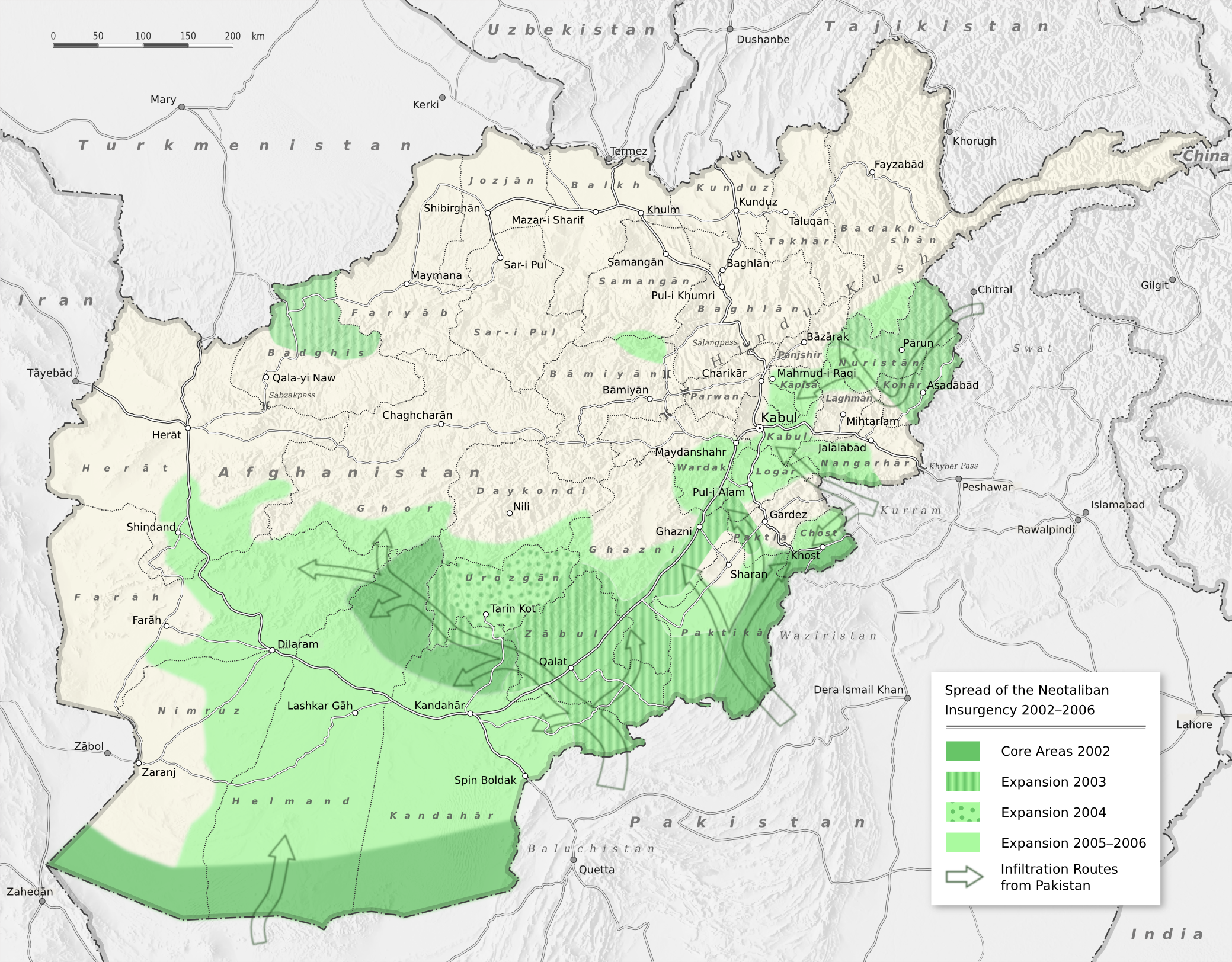 Spread of the Neotaliban-Insurgency in Afghanistan 2002–2006